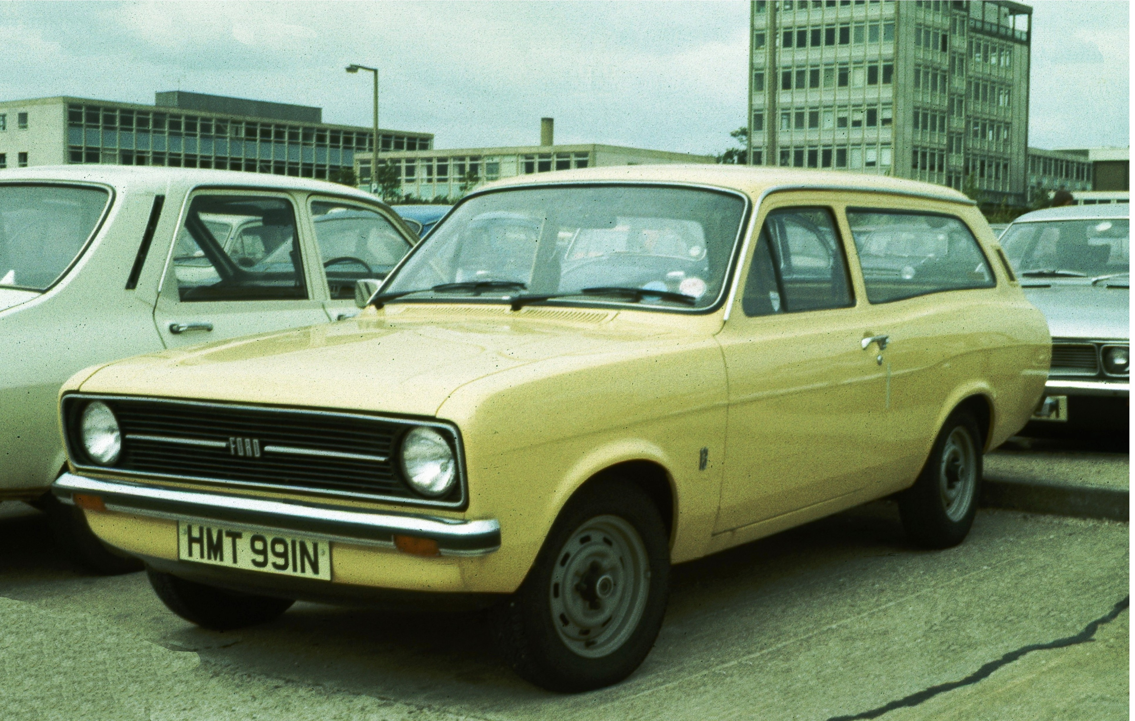 Ford Escort Mark 2 Estate in a Harlow Car Park